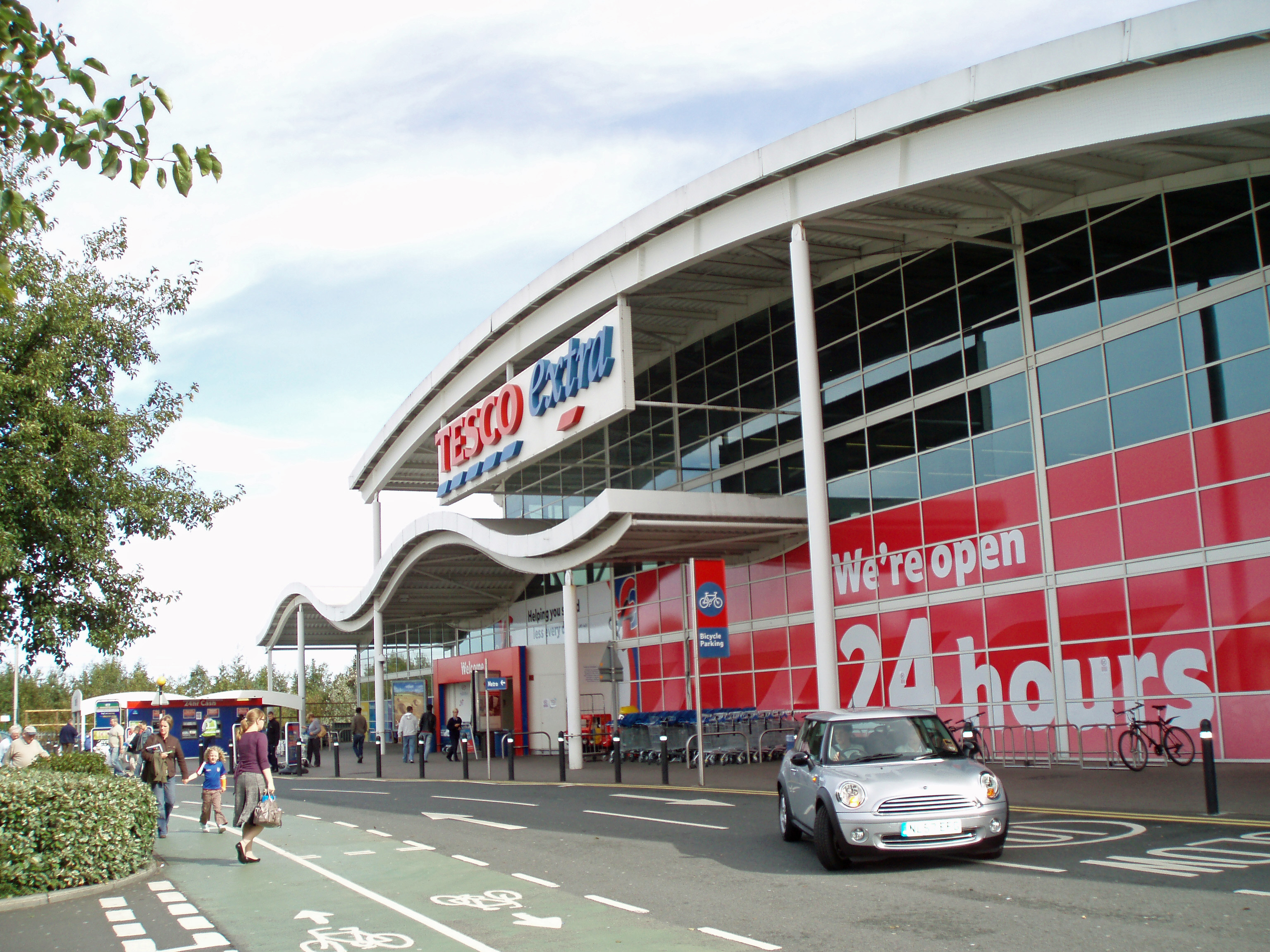 This is an image of the Tesco store at Kingston Park, Newcastle upon Tyne, England